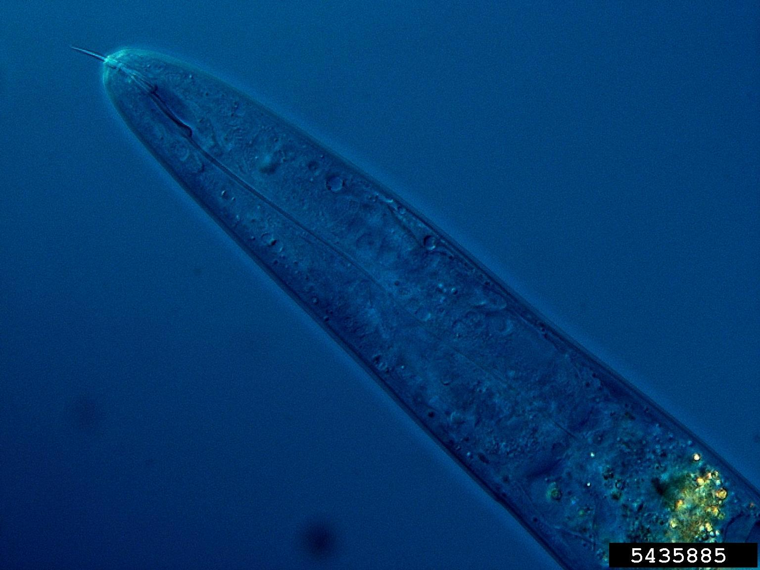 Trichodorus sp. at Beta spp.